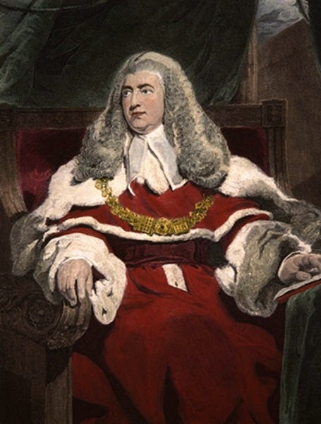 Edward Law, 1st Baron Ellenborough (1750-1818)